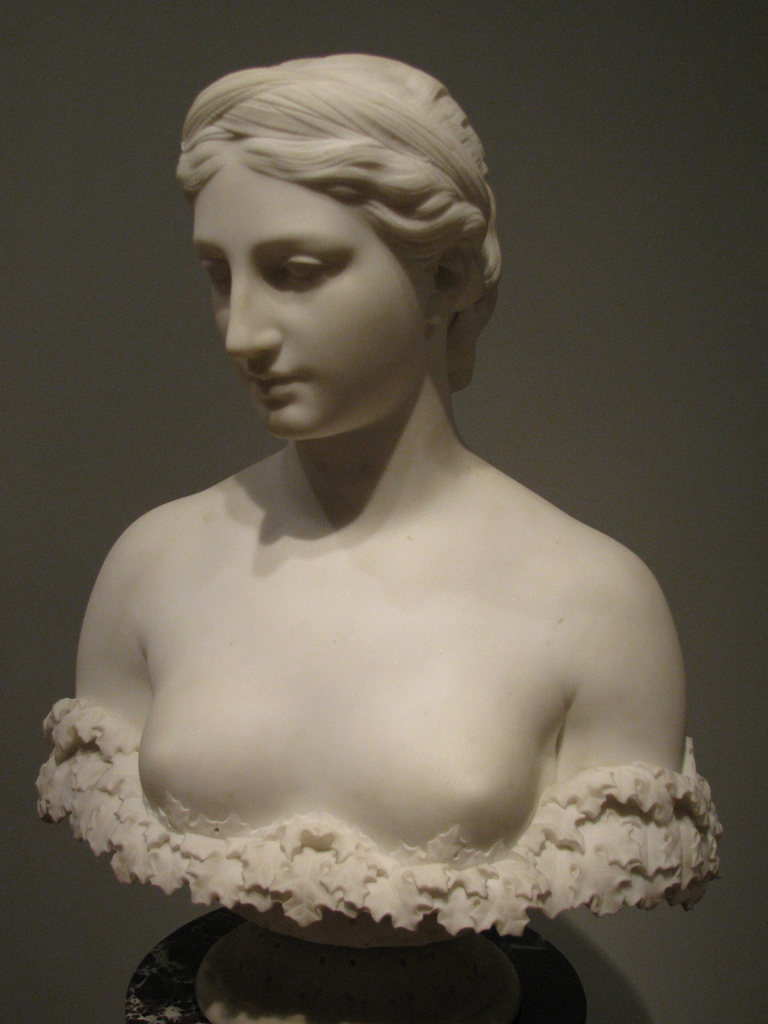 Proserpinemodeled 1844, carved after 1873 Hiram Powers Born: Woodstock, Vermont 1805 Died: Florence, Italy 1873 marble 24 1/2 x 18 7/8 x 11 1/8 in. (62.2 x 48.0 x 28.2 cm) Smithsonian American Art Museum Museum purchase in memory of Ralph Cross Johnson 1968.155.67 Smithsonian American Art Museum Wikipedia Loves Art at the Smithsonian American Art Museum This photo of item # 1968.155.67 at the Smithsonian American Art Museum was contributed under the team name "Team_Gene" as part of the Wikipedia Loves Art project in February 2009. Smithsonian American Art Museum The original photograph on Flickr was taken by pohick2—please add a comment to the original Flickr page whenever a use has been made on Wikipedia or another project. Project galleries on Flickr: this institution, this team